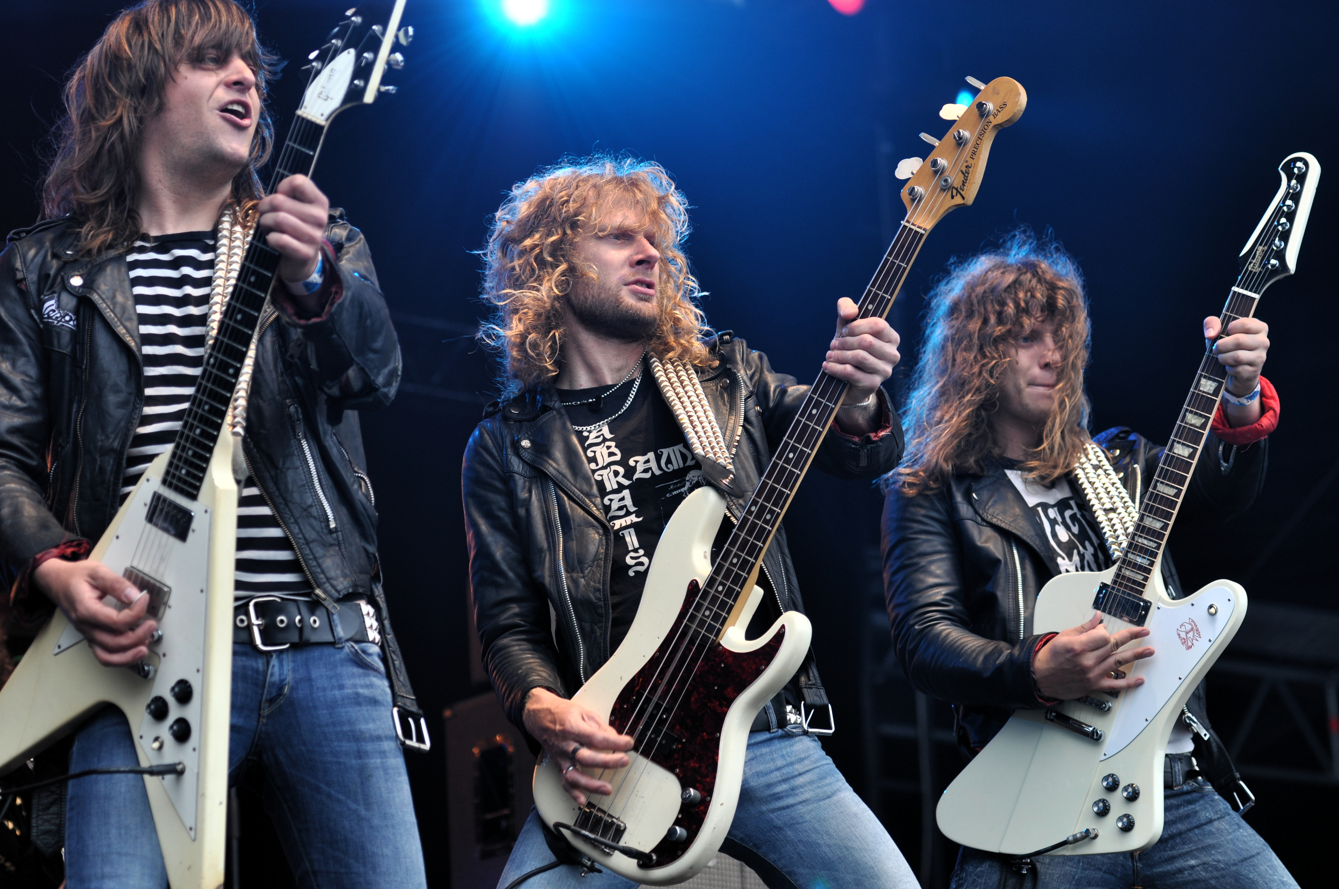 The swedish metal band Bullet at Rock am Ring 2013